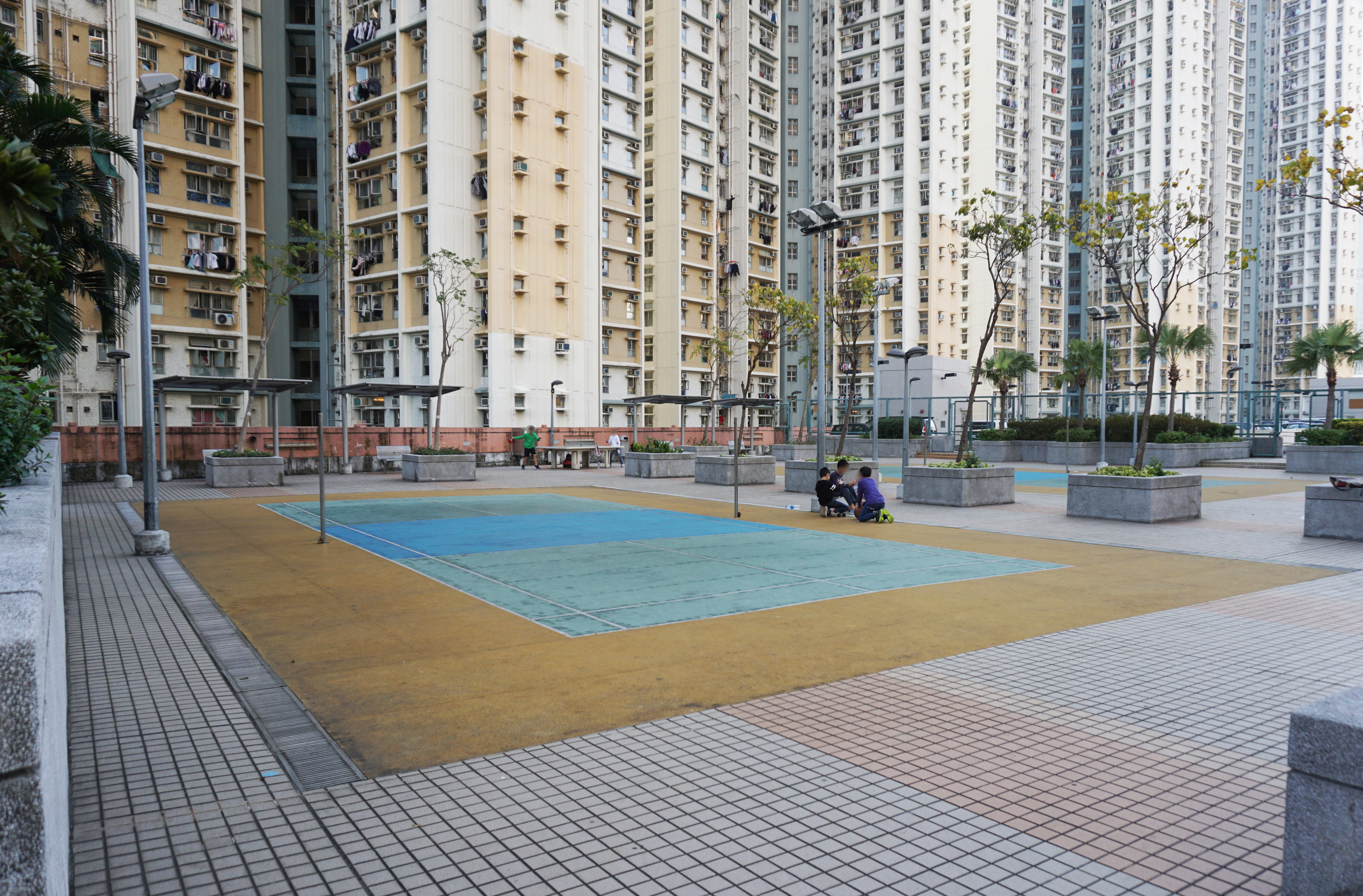 Hoi Lai Estate in Lai Chi Kok, Hong Kong.